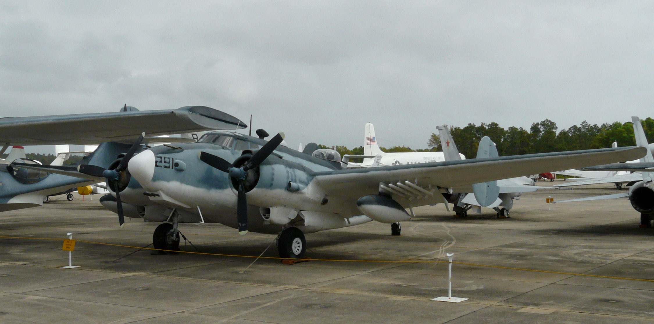 Lockheed PV-2 Harpoon, Naval Aviation Museum, Pensacola, Florida